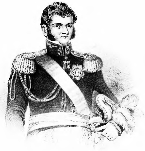 Bernardo O'Higgins, drawing taken from File:A history of Chile.djvu page 10.